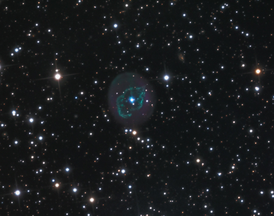 Abell 78 Picture Details: Optics 24-inch RC Optical Systems Telescope Camera SBIG STL11000 CCD Camera Filters Custom Scientific Dates May 31st-June 1st Location Mount Lemmon SkyCenter Exposure LRGB = 150:100:80:80 minutes Acquisition TheSky (Software Bisque), Maxim DL/CCD (Cyanogen) Processing CCDStack (CCDWare), Mira (MiraMetrics), Maxim DL (Cyanogen), Photoshop CS3 (Adobe) credit line and Copyright Adam Block/Mount Lemmon SkyCenter/University of Arizona